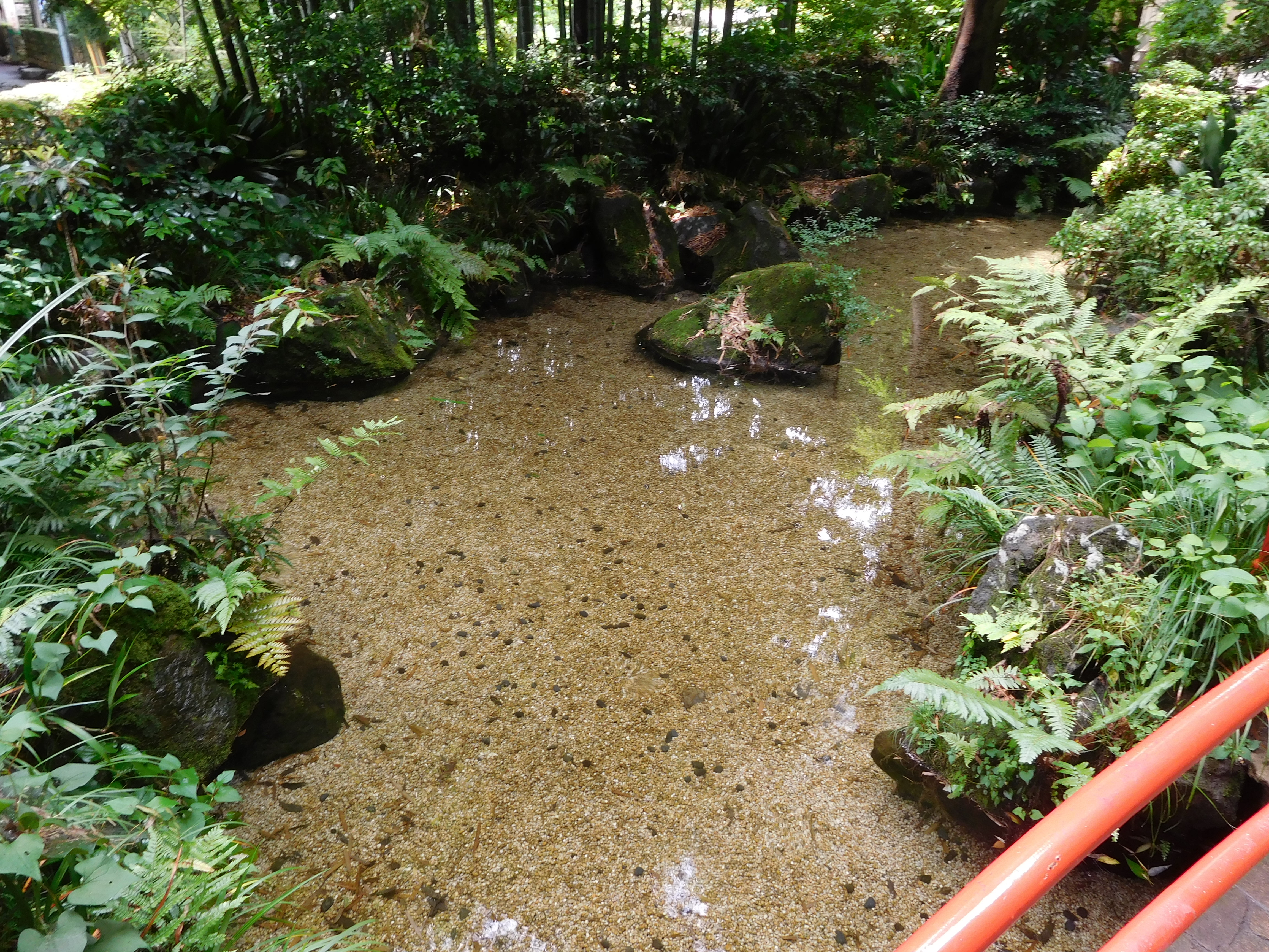 This is Masugata Pond in Kokubunji, Tokyo, Japan.